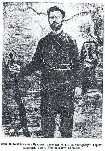 Iliya Biolchev from Prilep IMARO